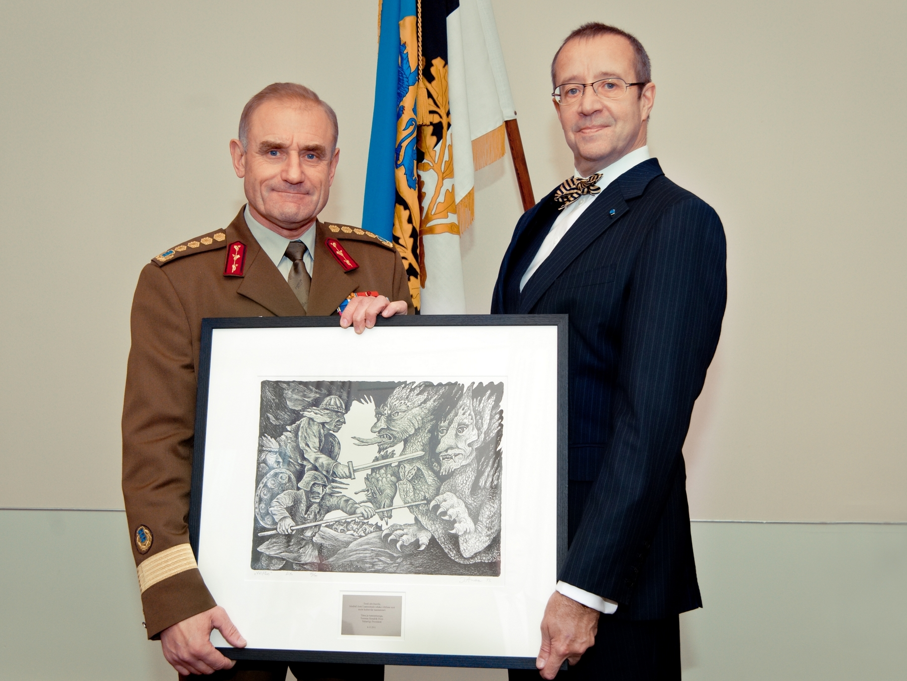 President Toomas Hendrik Ilves met with General Ants Laaneots, who just completed his five years in office as the Commander of the Estonian Defence Forces. The Head of State gave one of the builders of the Estonian Defence Forces an artwork by Jüri Arrak, entitled “Võitlus” (the Fight), which the artist created in 1994 to celebrate the departure of the occupying forces from Estonia.